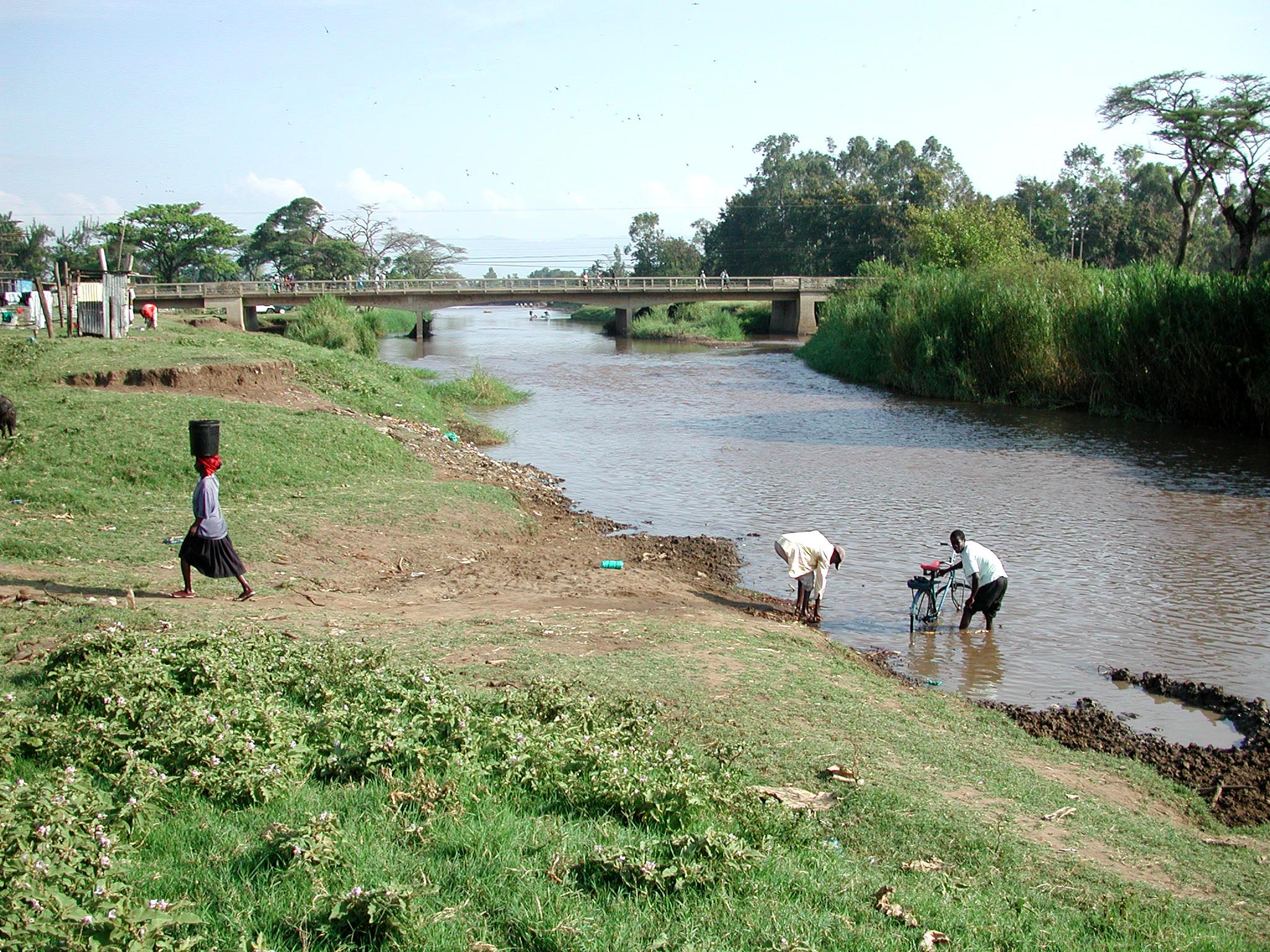 Nyando River at Ahero people, Kenya